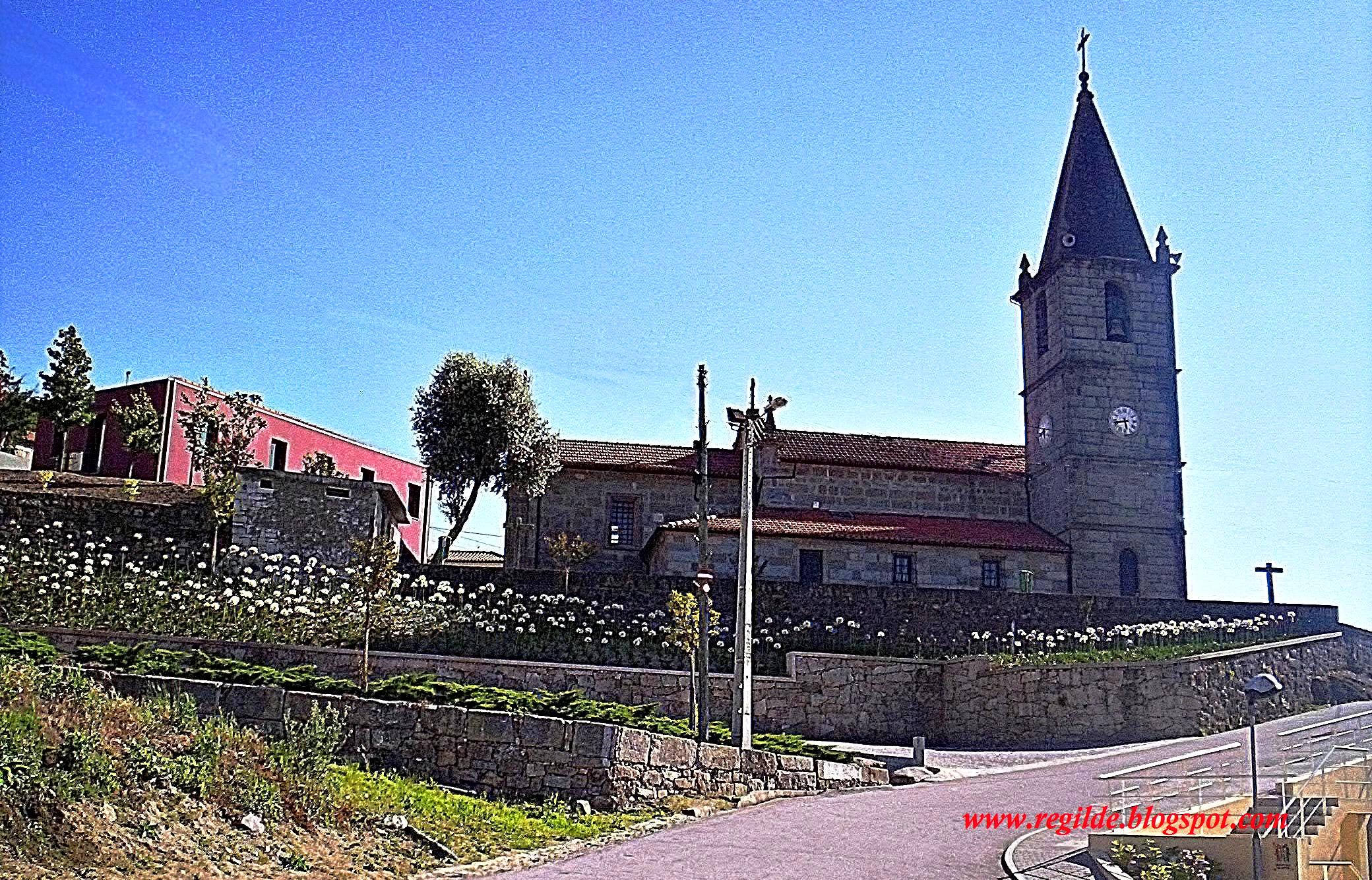 Igreja de Regilde